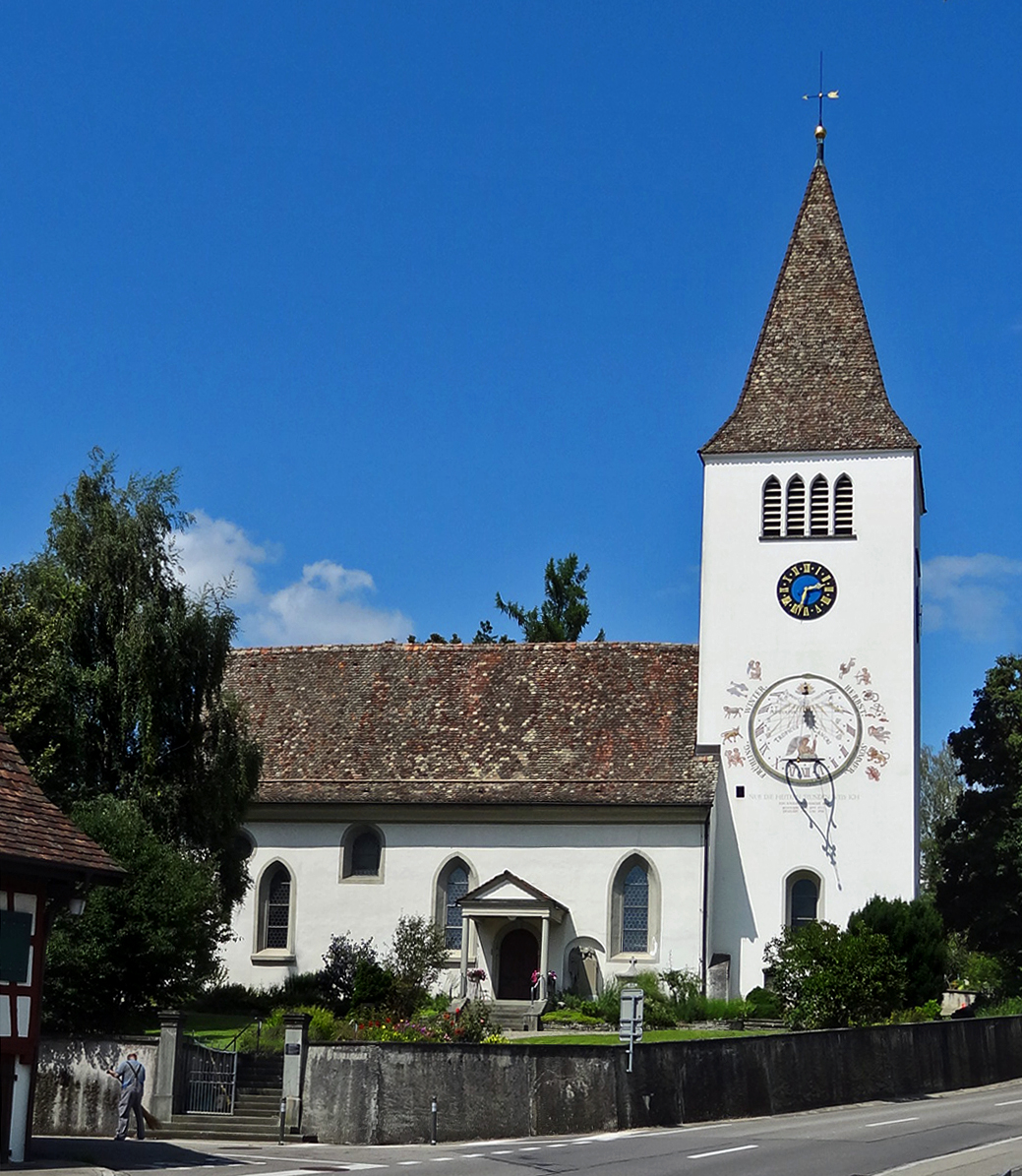 Church of Märstetten, Switzerland.